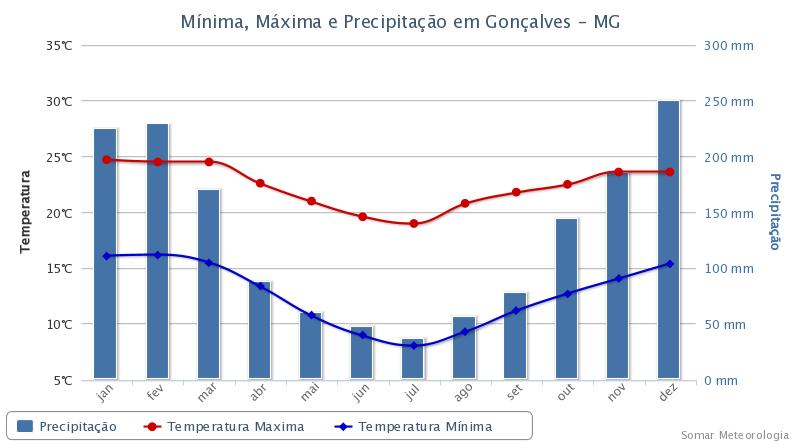 GONÇALVES CLIMATE